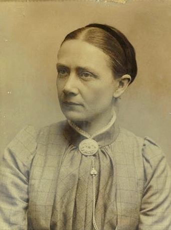 Portrait of the 18th-century Danish embroiderer and feminist Kristiane Konstantin-Hansen: cropped and enhanced